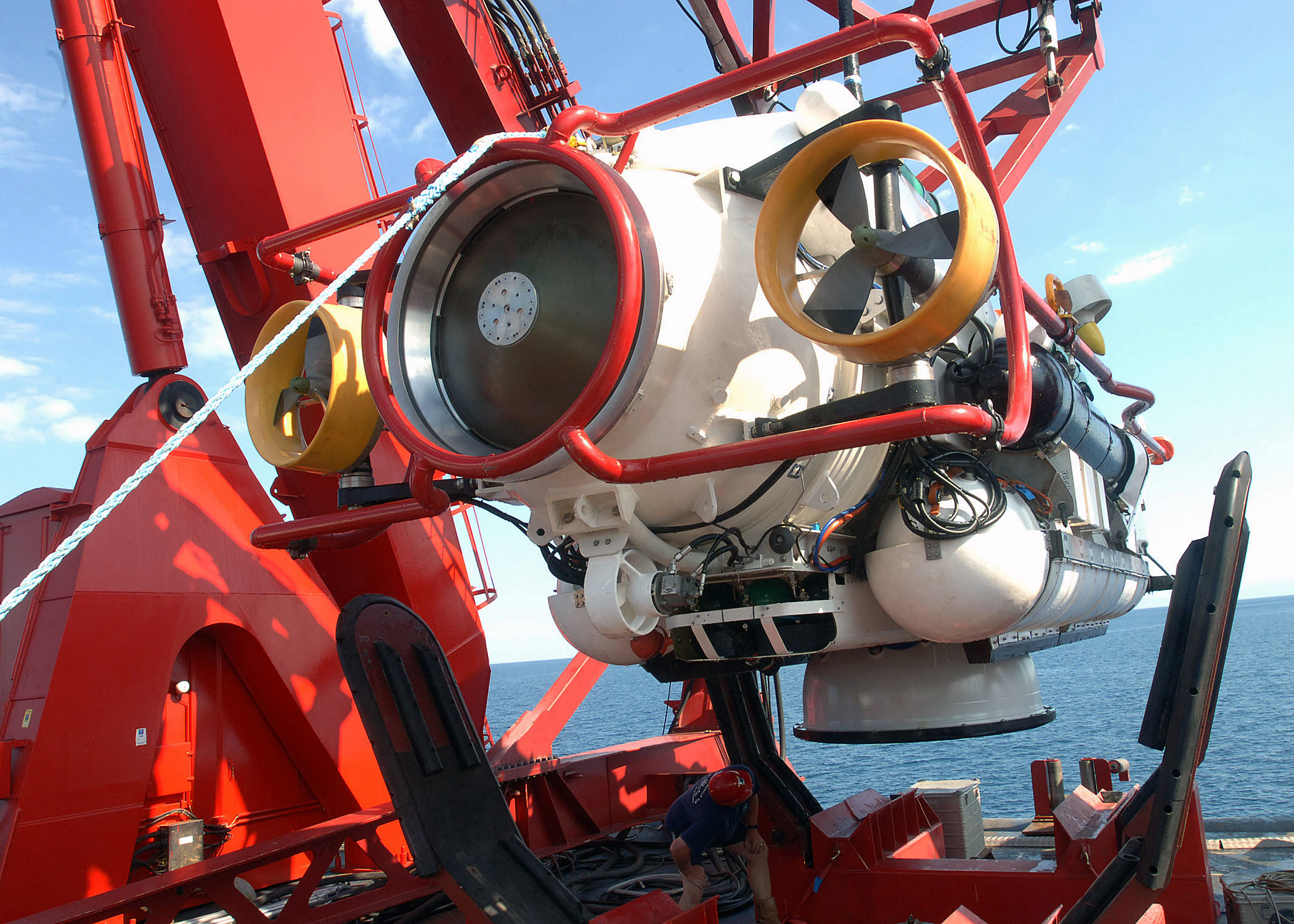 The United Kingdom's Manned Submersible LR5 rescue vehicle retrieved by a crane aboard the Finnish icebreaker MSV (Multi Service Vessel) FENNICA during the North Atlantic Treaty Organization (NATO) Submarine Escape and Rescue (SERS) Exercise SORBET ROYAL 2005. Divers from various nations will work together to rescue submariners during the exercise in the Mediterranean. Twenty-seven participating nations, including 14 NATO nations will test their capabilities and interoperability. Four submarines with up to 52 crewmembers aboard will be placed on the bottom of the ocean, while rescue forces with rescue vehicles and systems work together to solve complex disaster rescue problems.